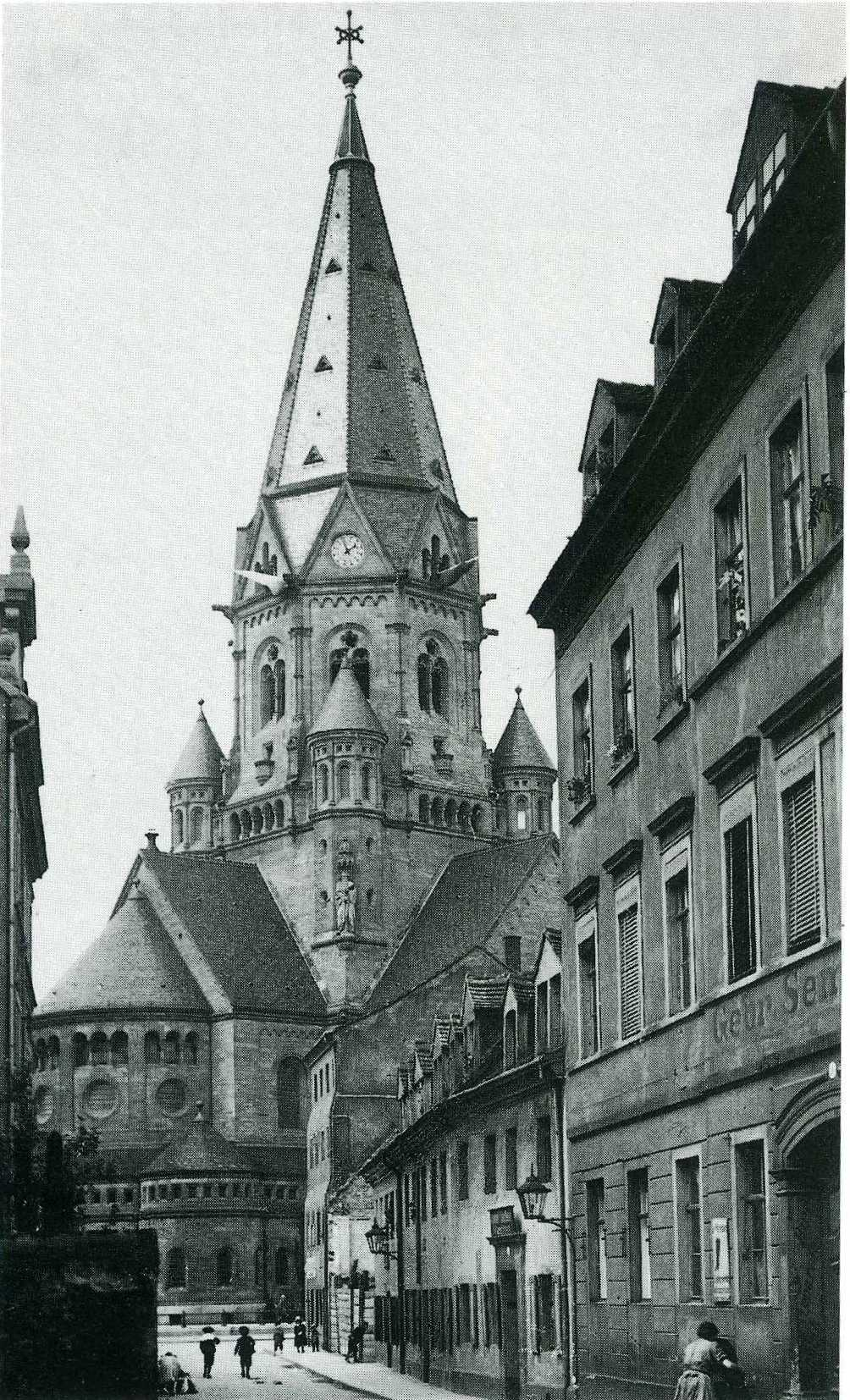 Jacobikirche Dresden